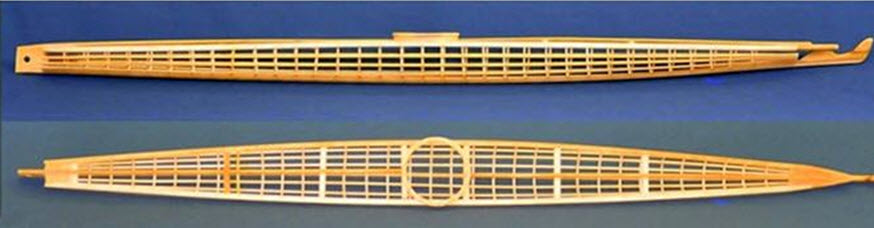 Iqyax, sea kayak from the Alaska Peninsula and Aleutian Islands, designed by the Unangan people; wooden frame of single-hatch kayak, this model is 1/6th scale, about three feet long, about three inches wide, about two inches deep. The photograph shows a top view and a side (starboard) view. The full-size kayaks were covered with sea lion hides.